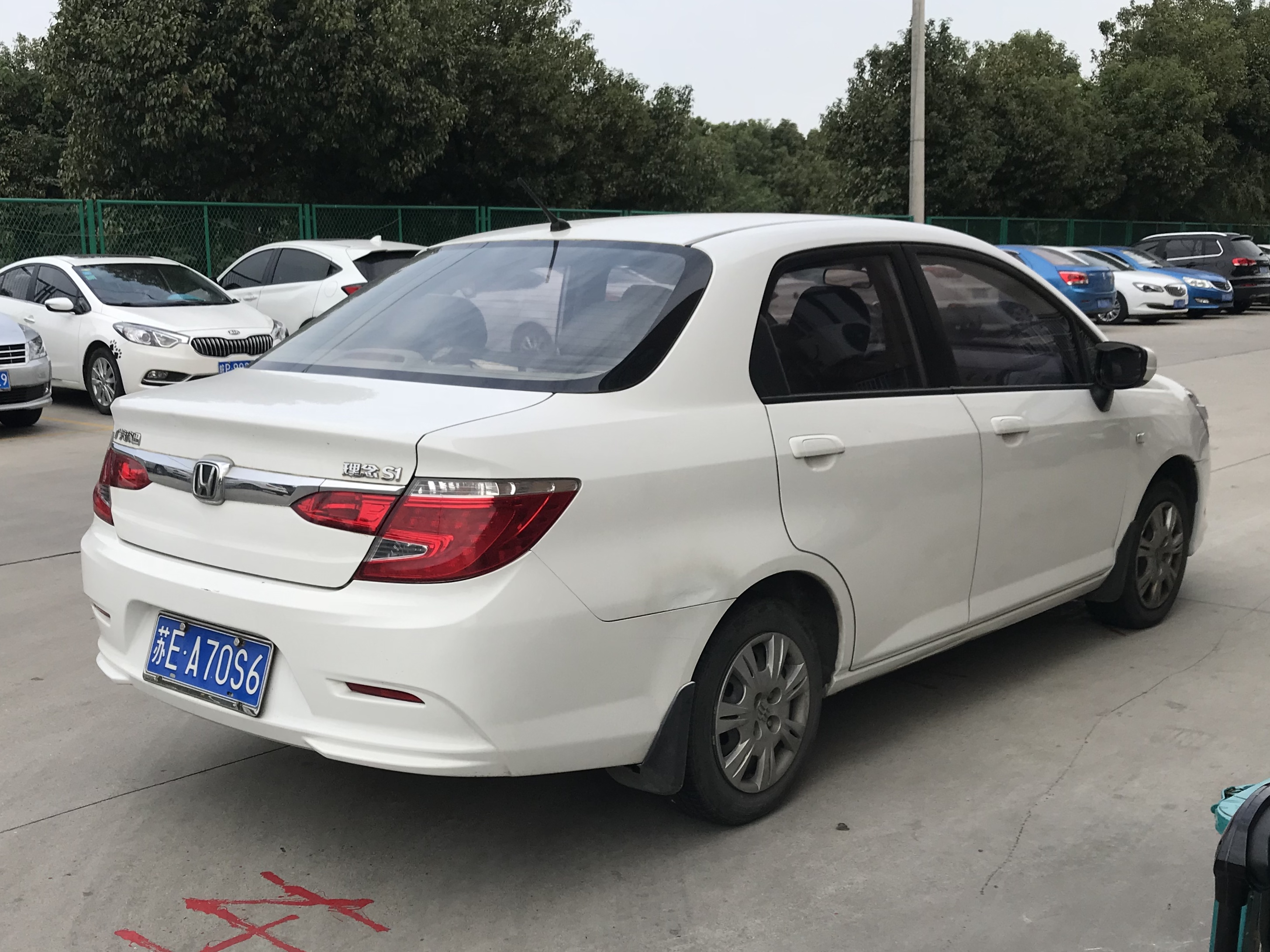 Everus S1 facelift rear